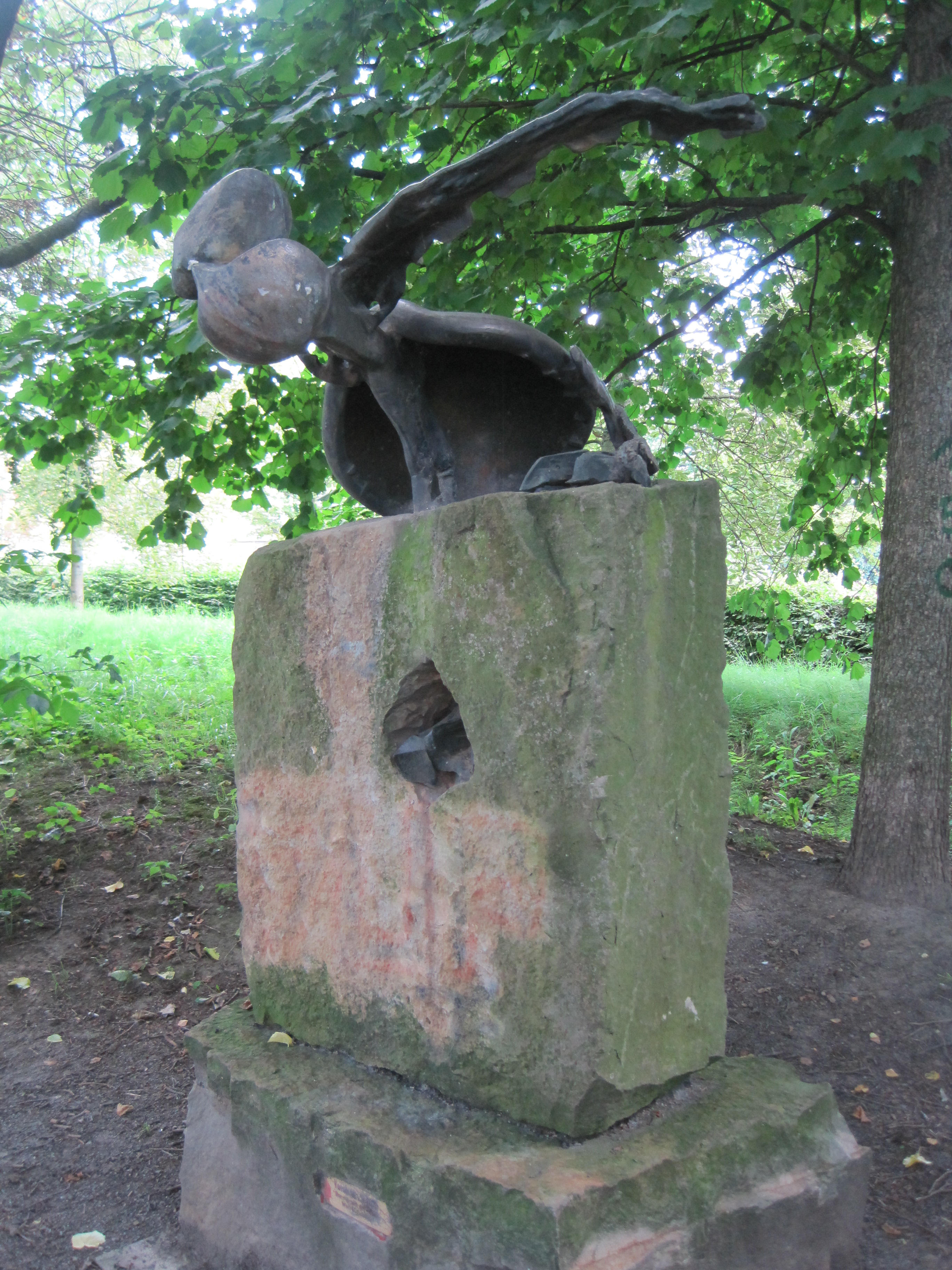 Vorsicht Satire: Der Durchbruch der Gene by Wolf E. Schultz, Stadthagen, Germany check usage